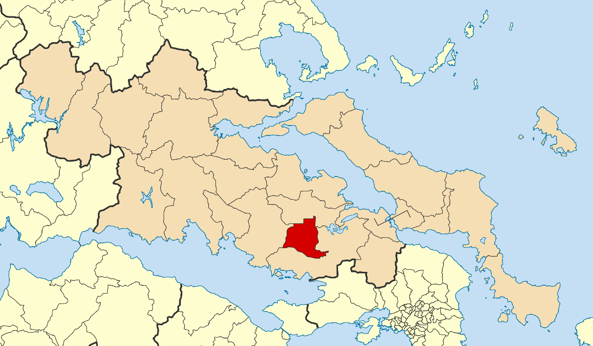 Locator map for Aliartos municipality in Greek region Central Greece (2011)